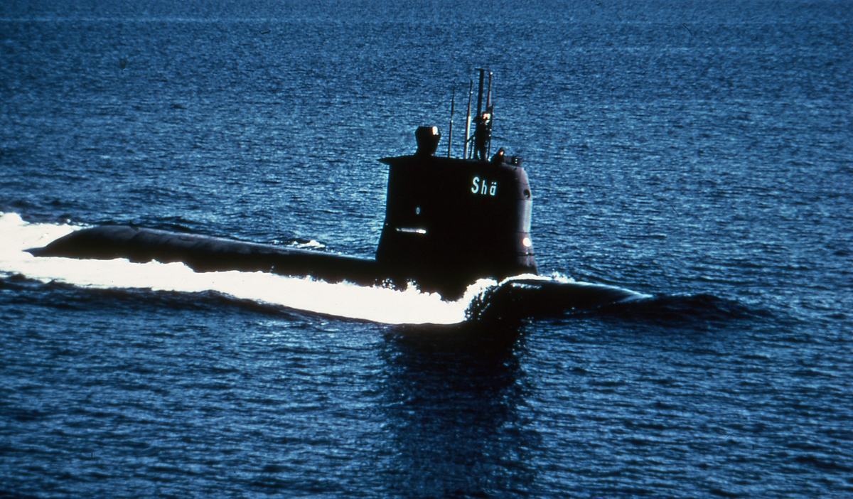 IDENTIFICATION NUMBER: B33:19 Ship: HSwMS Sjöhästen Shipping company: Royal Swedish Navy Launched: 1968 Builder: Örlogsvarvet, Karlskrona Other: Sjöhästen at sea.